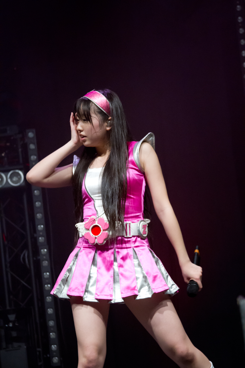 A member of Momoiro Clover Z, Japanese pop idol group. This Photo was taken in Japan Expo 2012 at Paris.